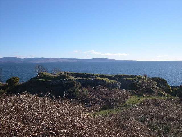 Kildonan Dun, Kintyre, Argyll. Kildonan Dun. A fortified farmstead dating from the 2nd century AD.